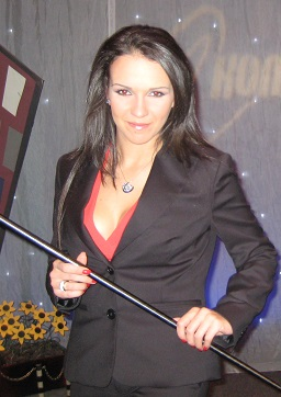 Scheherazade while participating in a TV show